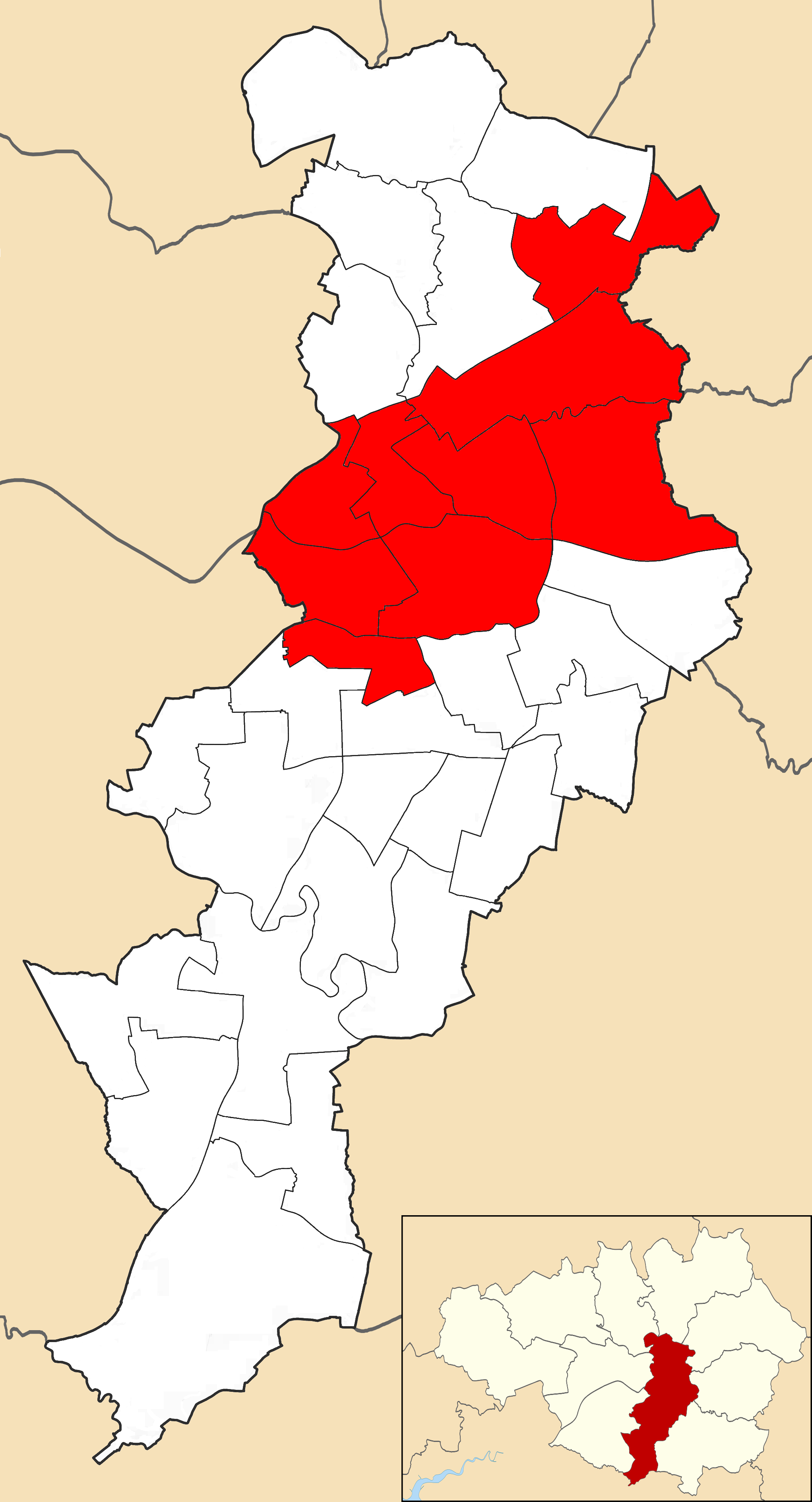 Map showing location of Manchester Central (UK Parliament constituency) within Manchester City Council.